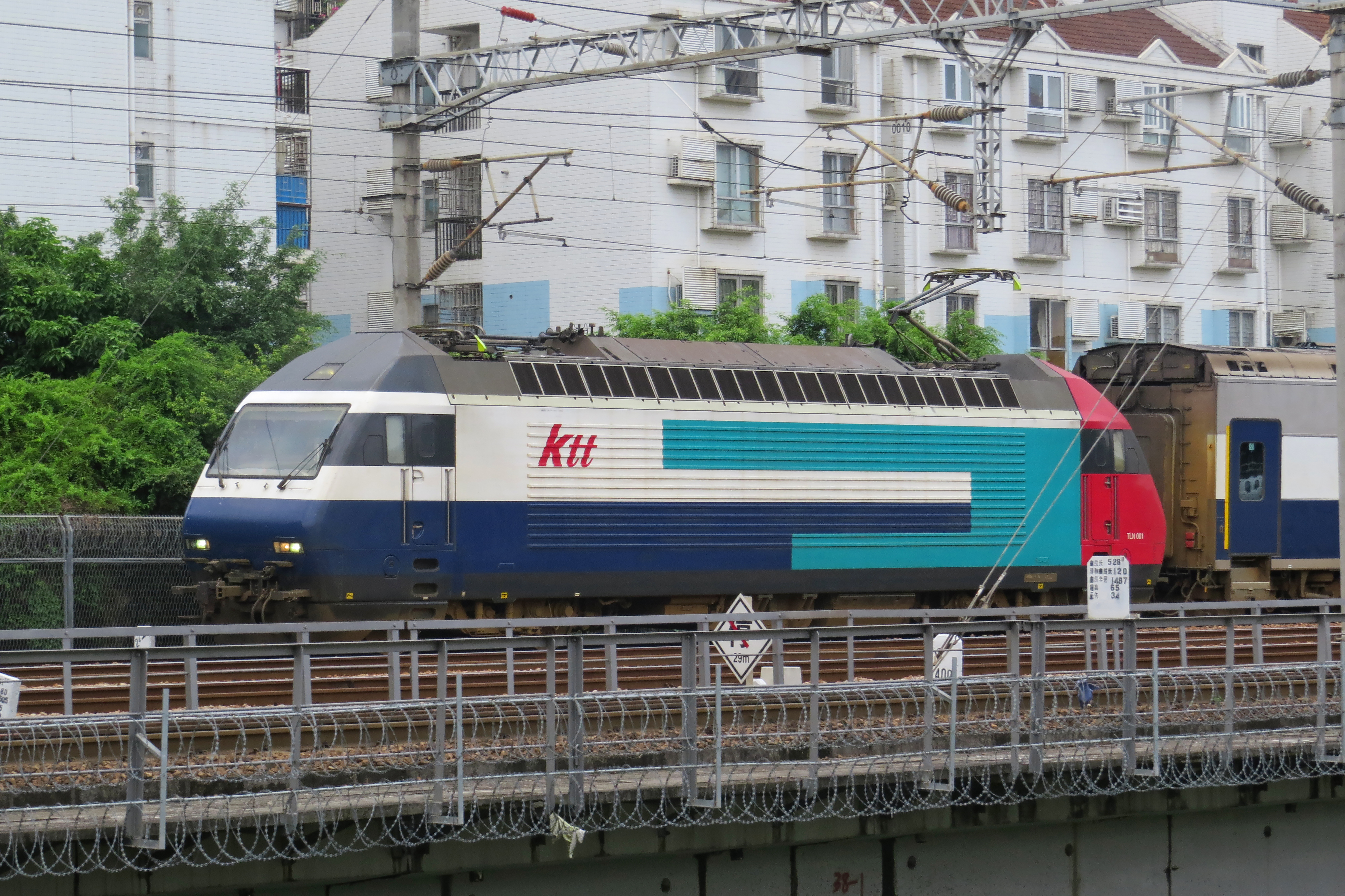 Z823 to Hung Hom. The KTT passed soon after I reached this position. This locomotive is a Re 460, designed by Pininfarina. SS9G resembles it so much, because that model is also designed by Pininfarina! Interestingly though, 823 is the room number of our most frequently used classroom for GIS courses.